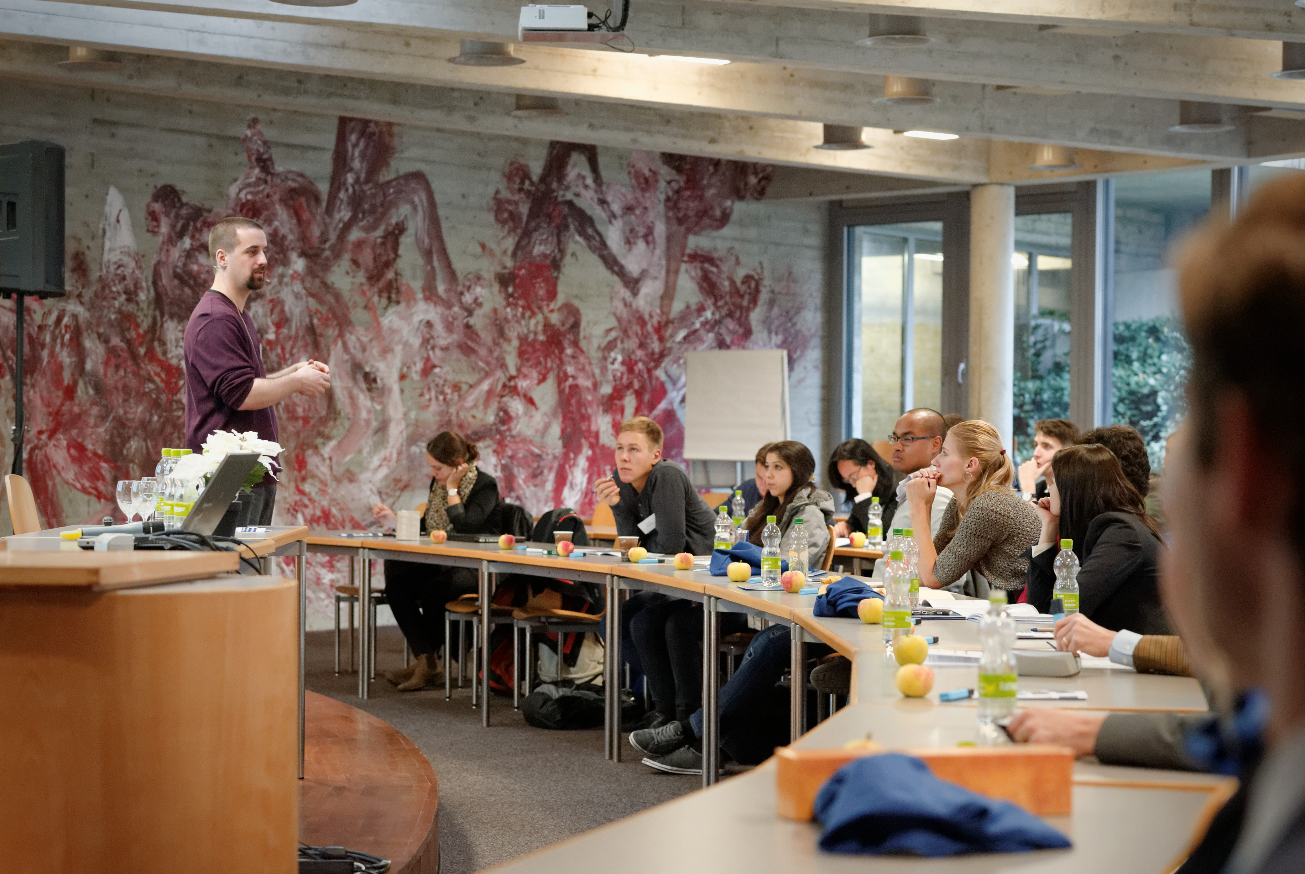 Charles Andrès, Wikimedia CH CSO, presenting wikimedia business model to students during 2013 Oikos conference in St-Gallen